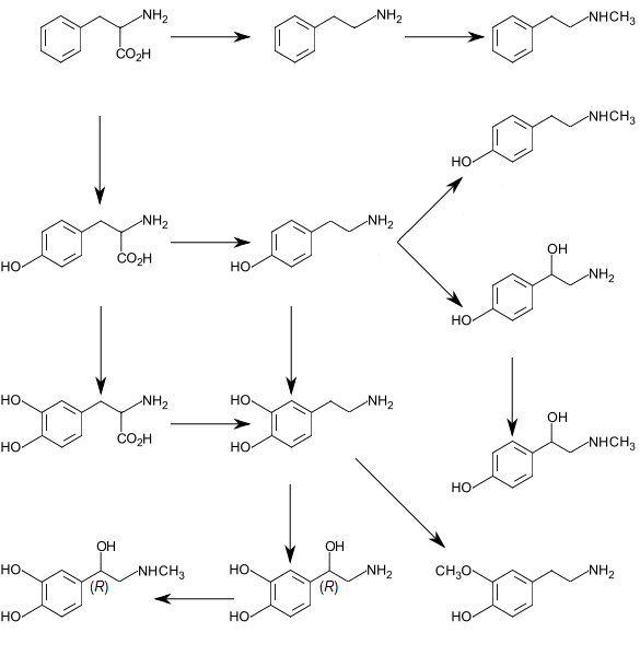 Diagram of trace amine and catecholamine biosynthesis in the human brain. The majority of this diagram is based upon the coverage and illustrations of these pathways in PMID 15860375 and PMID 19948186 The CYP2D6-mediated biosynthesis of dopamine from tyramine in the human brain is covered in PMID 24374199 The labeled image, with enzymes noted for the paths, is located at Template:Catecholamine and trace amine biosynthesis.